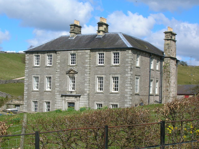 Castern Hall A substantial Georgian farmhouse overlooking the Manifold Valley.